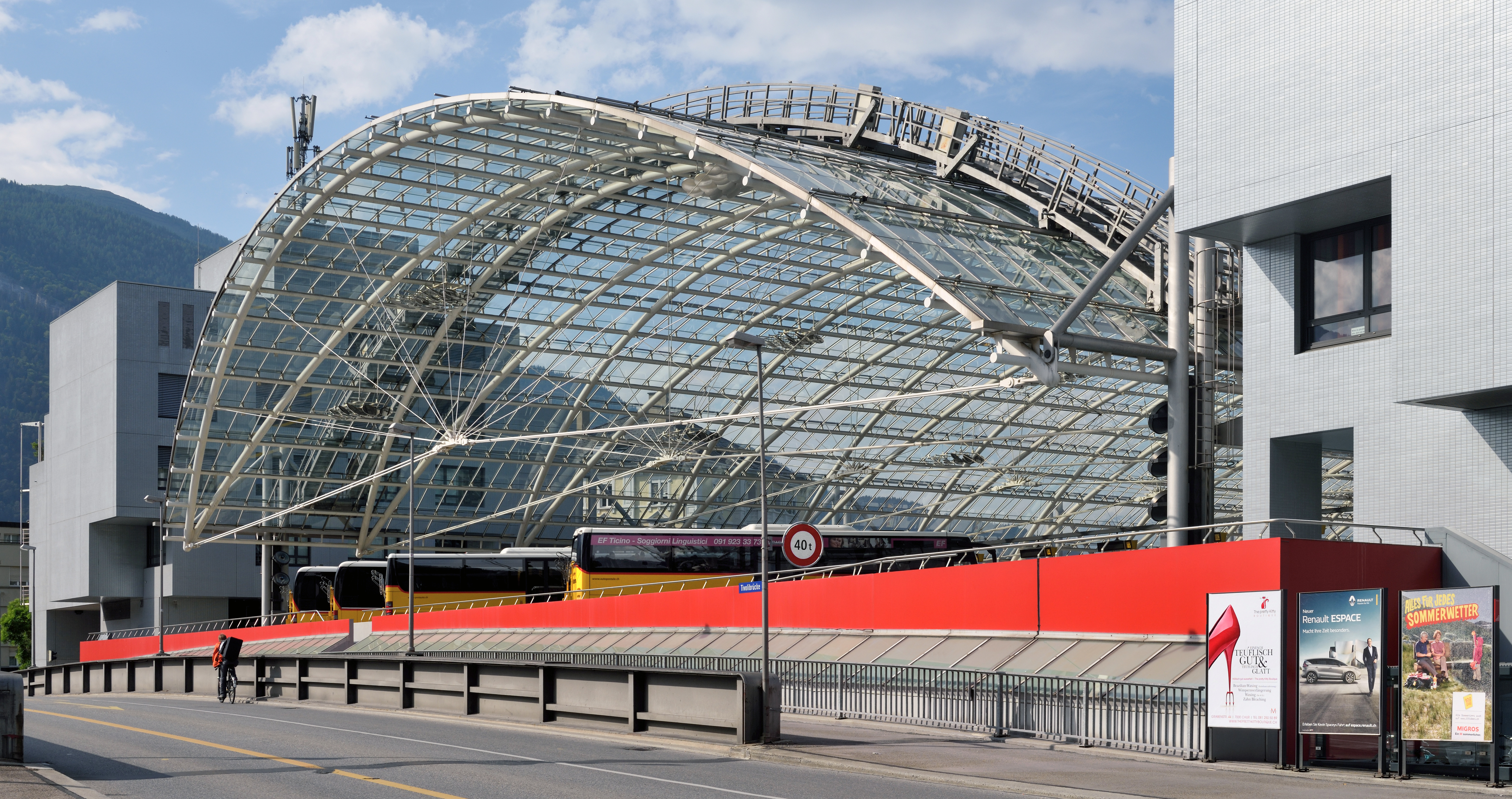 Bus terminal in Chur, Switzerland. The structure was completed in 1993. Architects: Richard Brosi and Robert Obrist.